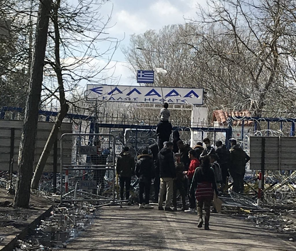 Refugees waiting at the Pazarkule, Greek-Turkish border